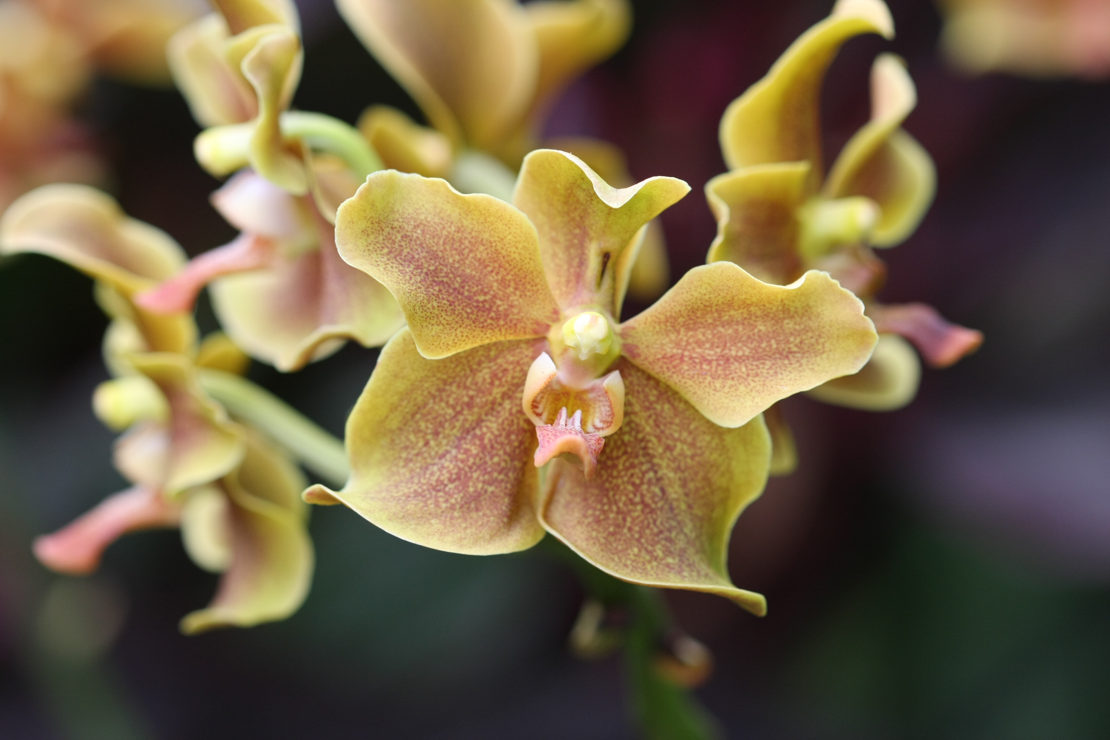 Paravanda Nelson Mandela in the National Orchid Garden, Singapore Botanic Gardens.